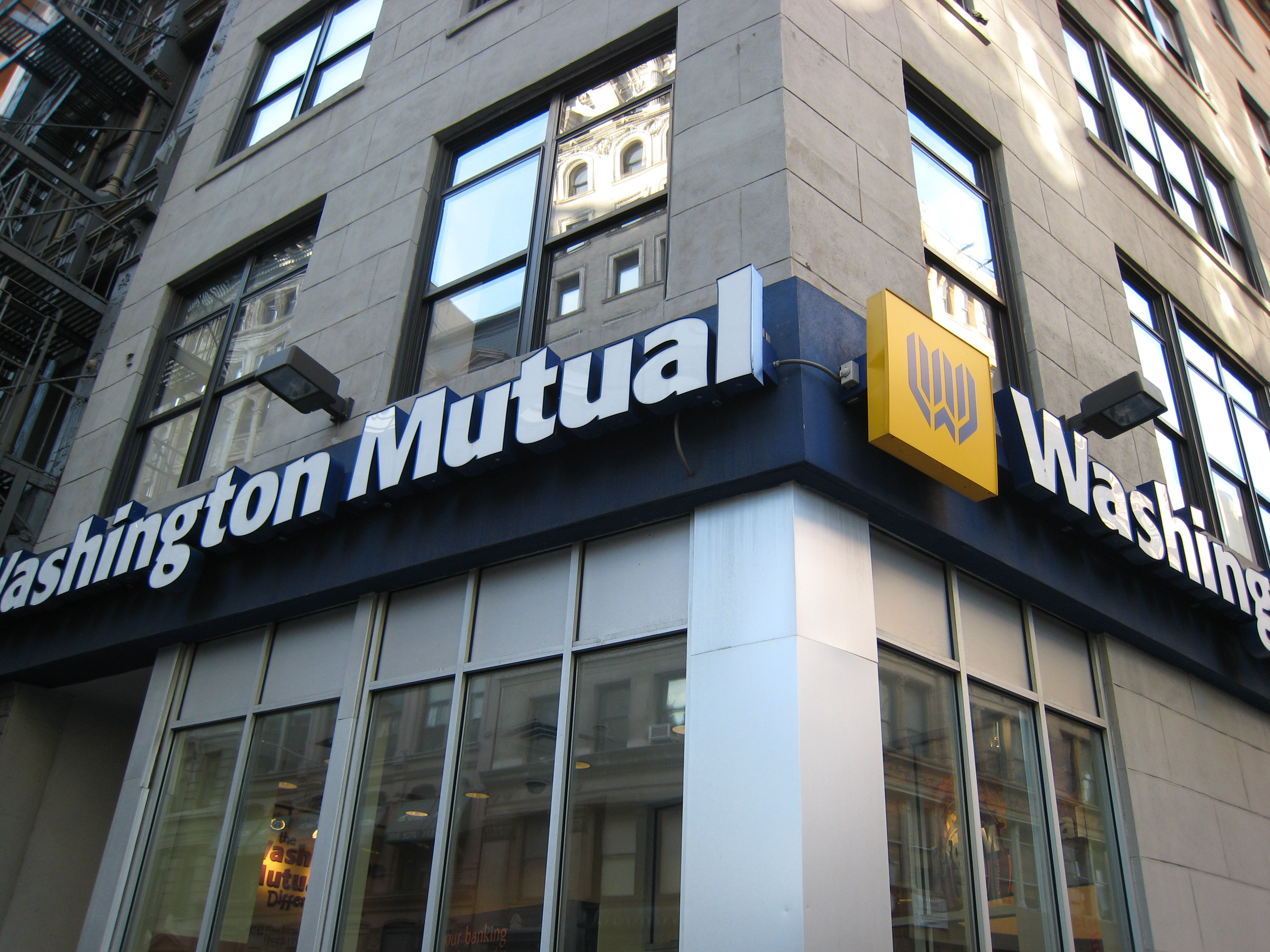 Washington Mutual Bank